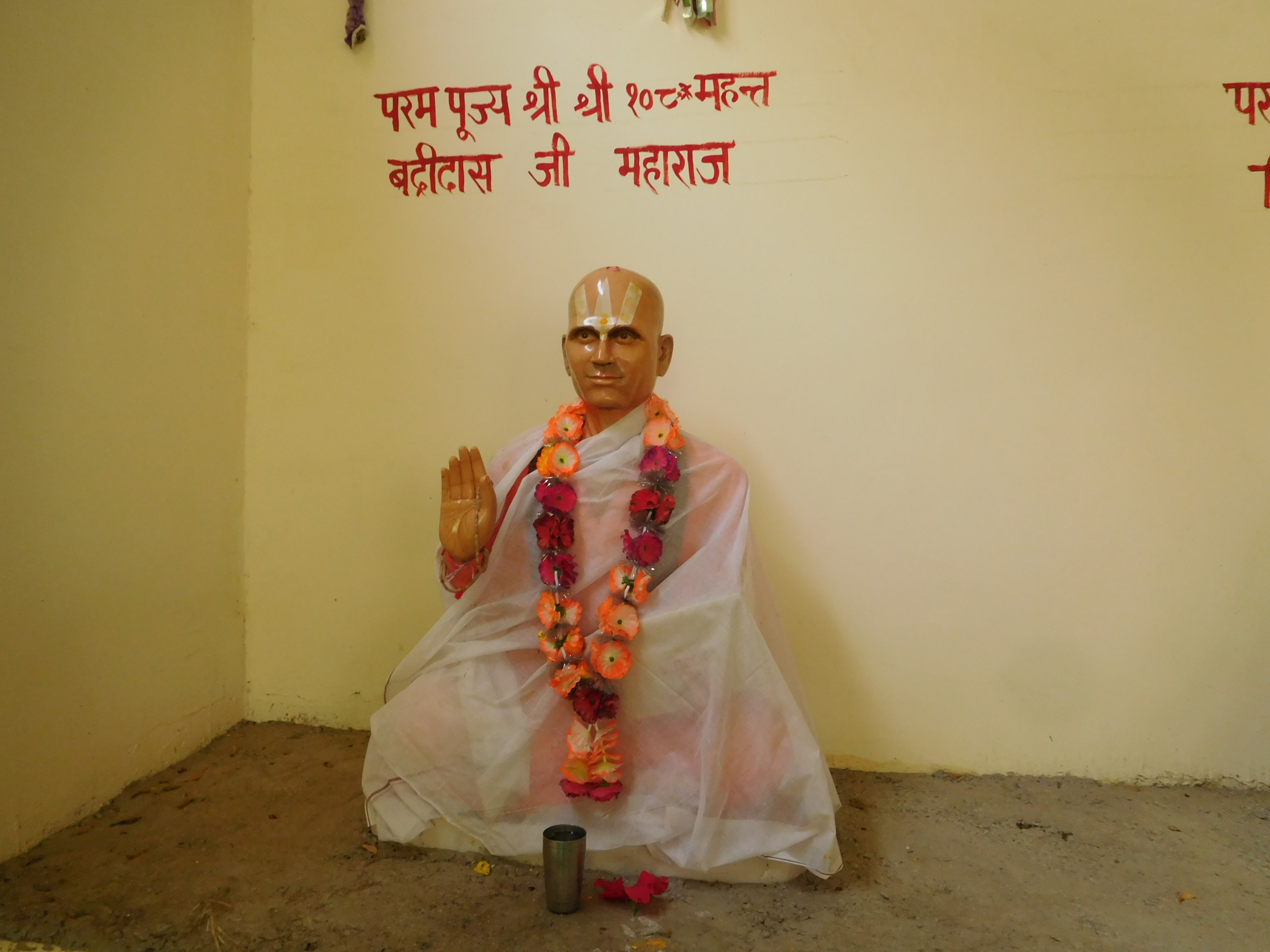 The founder of Shri Ram Janki Sanskrit Mahavidyalaya Gauriyapur (Akbarpur) ,Kanpur Dehat,UP,India.